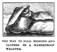 19th century knowledge hiking and camping rolling the bedding